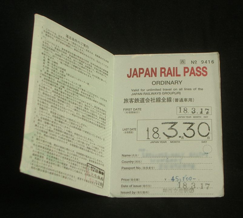 Photo of a Japan Rail Pass showing the everyday usage of the Japanese calendar on official documents.